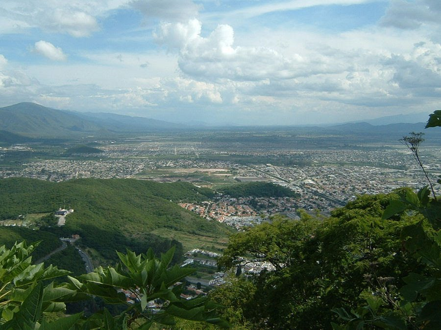 Vista de la ciudad de Salta desde el cerro San Bernardo